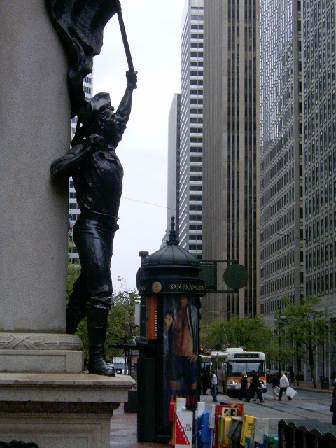 Market Street at the corner of Montgomery Street in San Francisco's financial district, 2005. The statue ("Admission Day Monument") commemorates American annexation of Califonia during the Mexican American war of 1848.